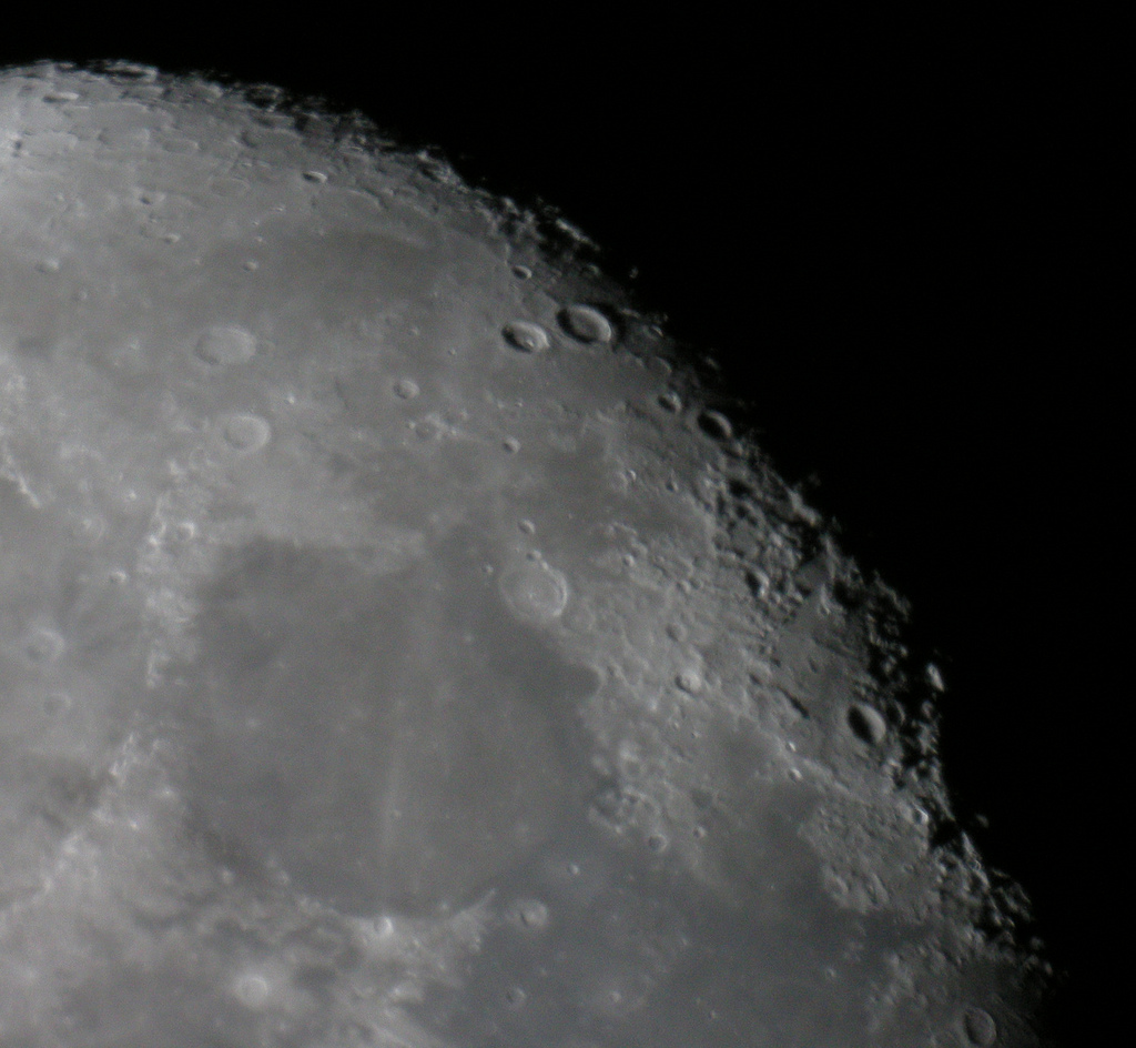 Photo taken with Nikon Coolpix P5000 put in afocal behind a telescope "Celestron C8" of 2000 mm focal distance equipped with an eyepiece of 40 mm focal distance.